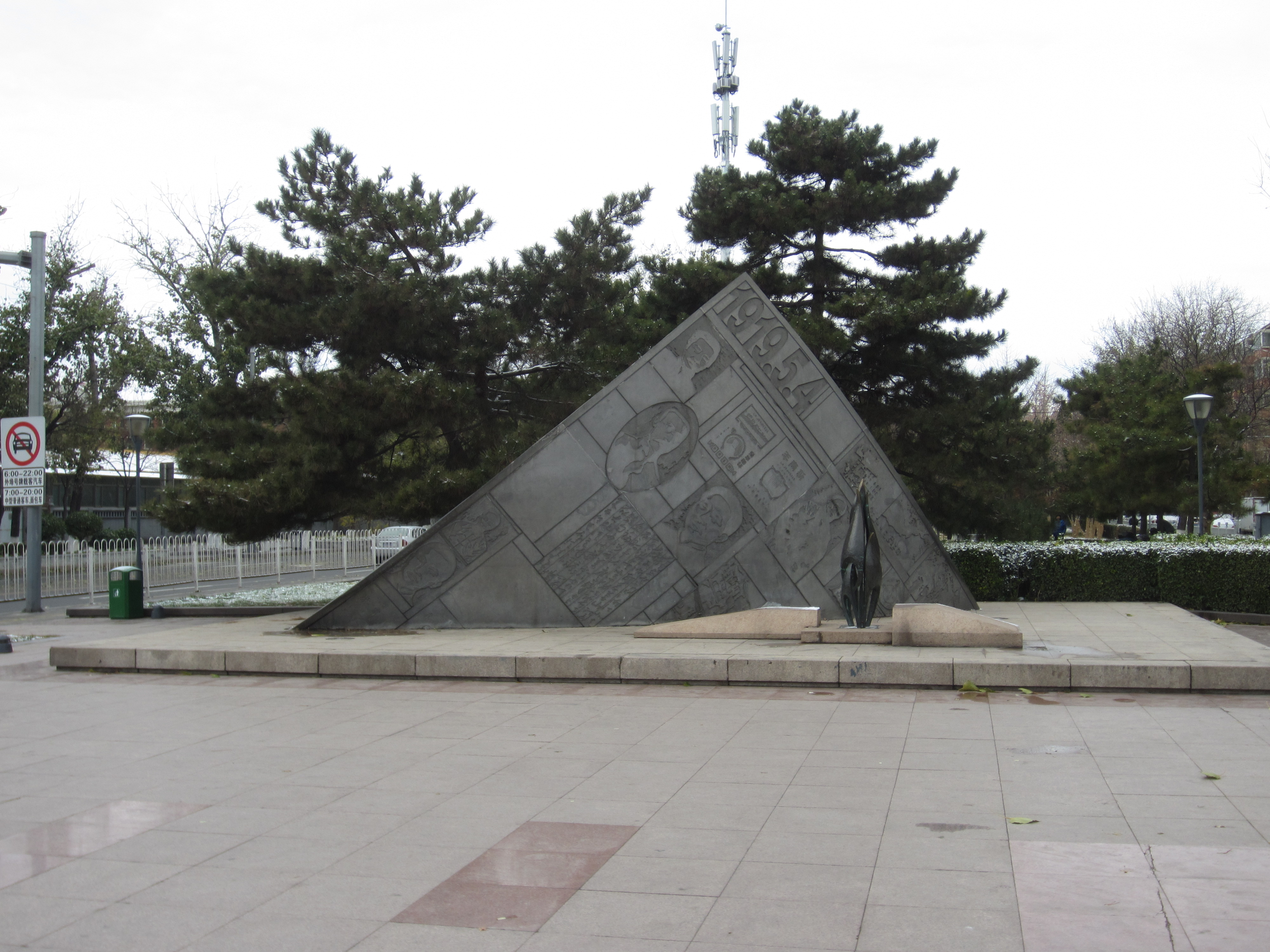 Beijing (November 2016)